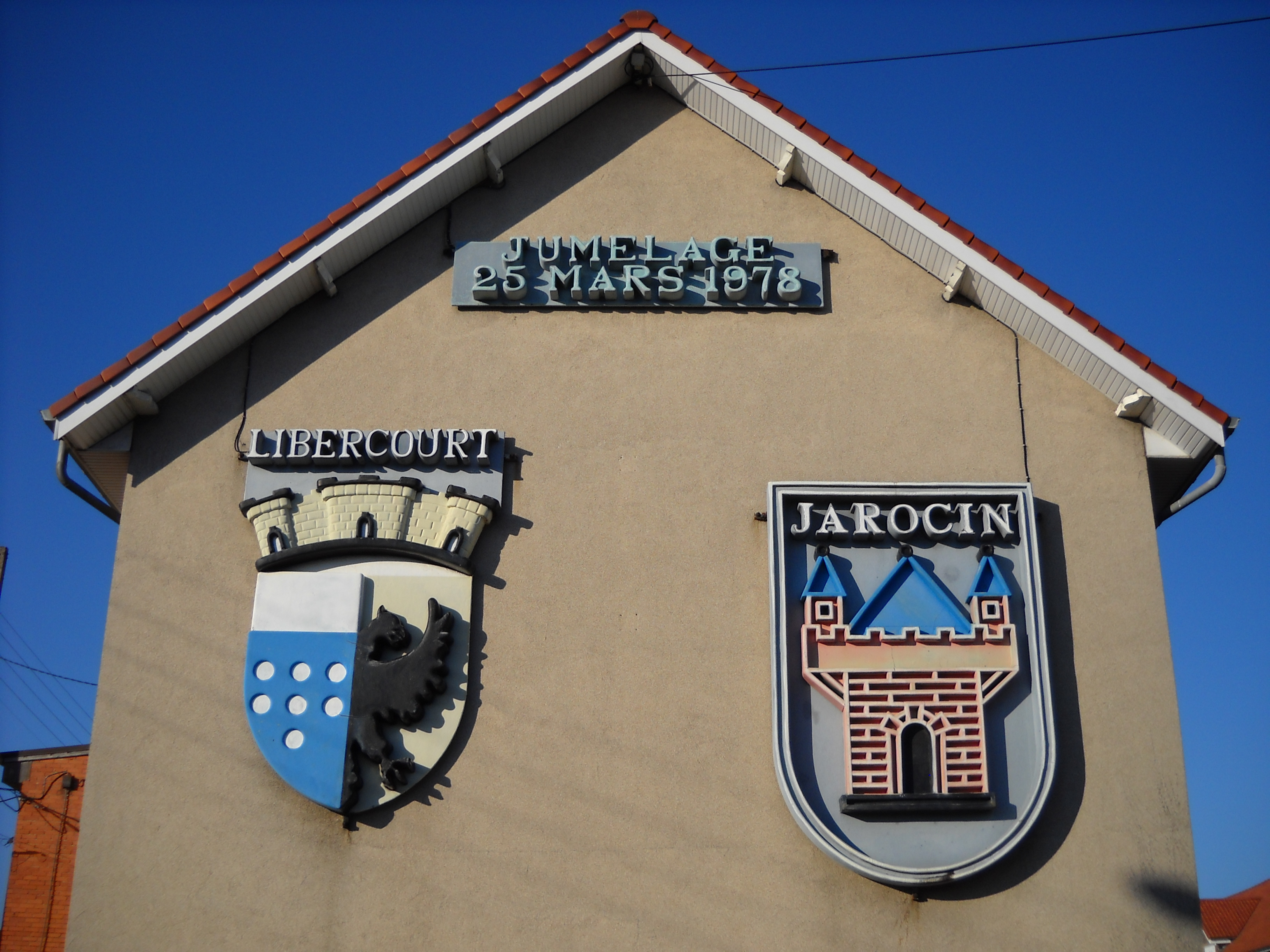 A wall showing the twin cities of Libercourt, Pas-de-Calais, France.